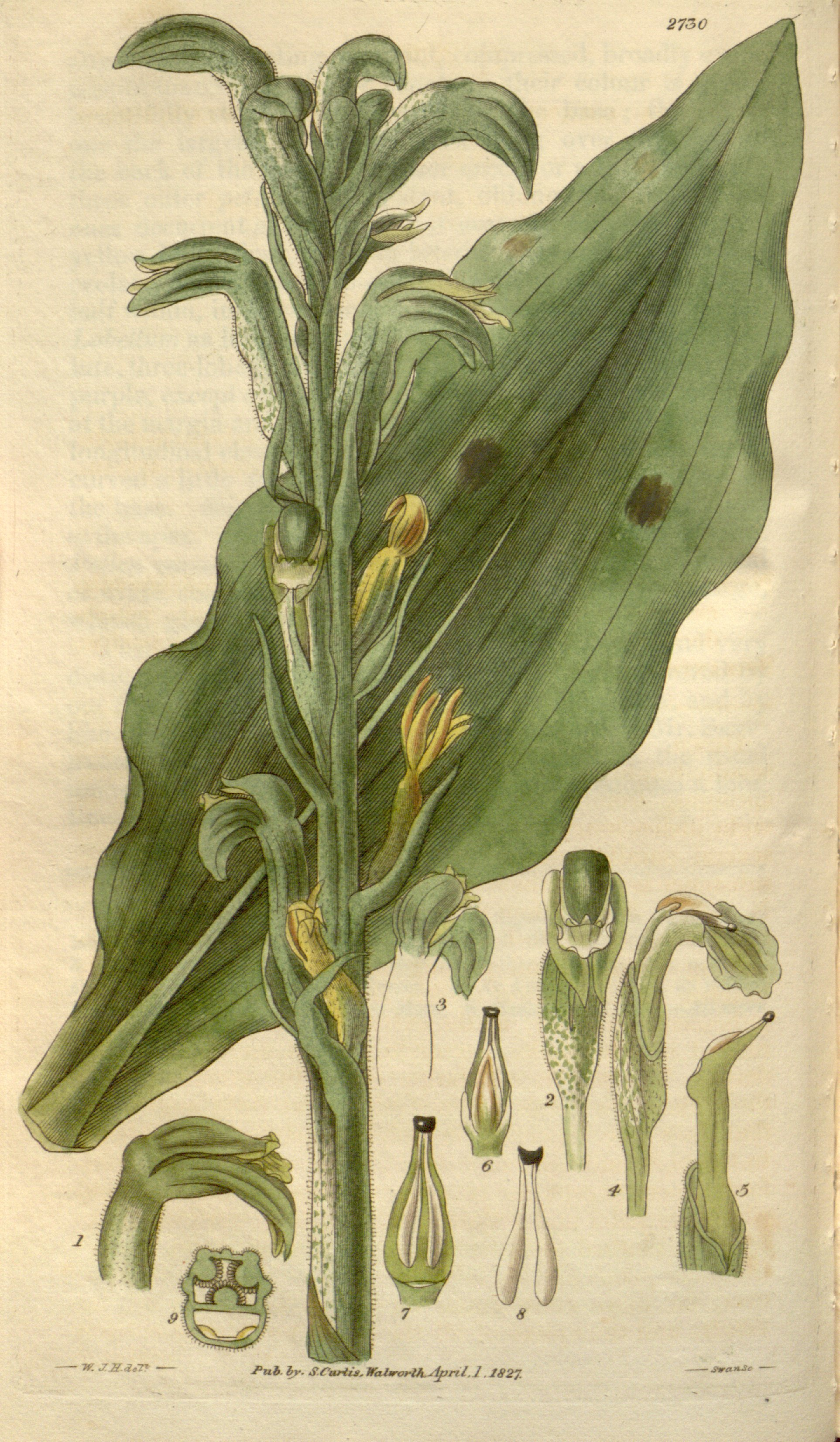 Illustration of Sarcoglottis grandiflora (as syn. Neottia grandiflora)